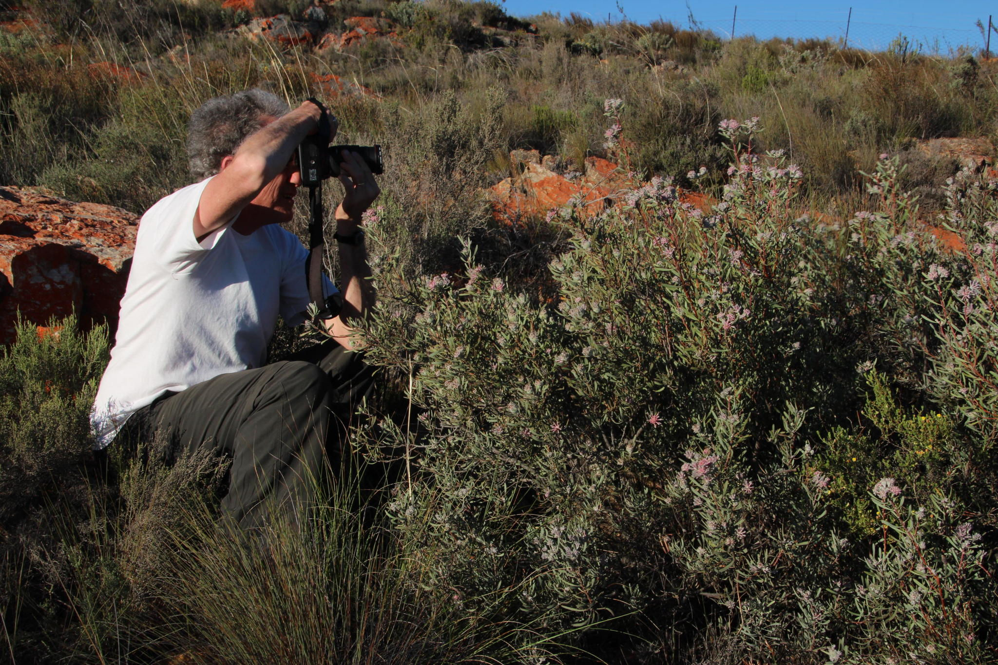 Habit of the Witteberg vexator, Vexatorella obtusata subsp. albomontana, photographed by Tony Rebelo on 22 October 2015 at tjhe Perdekloof Pass, 5 km North of the N1 road